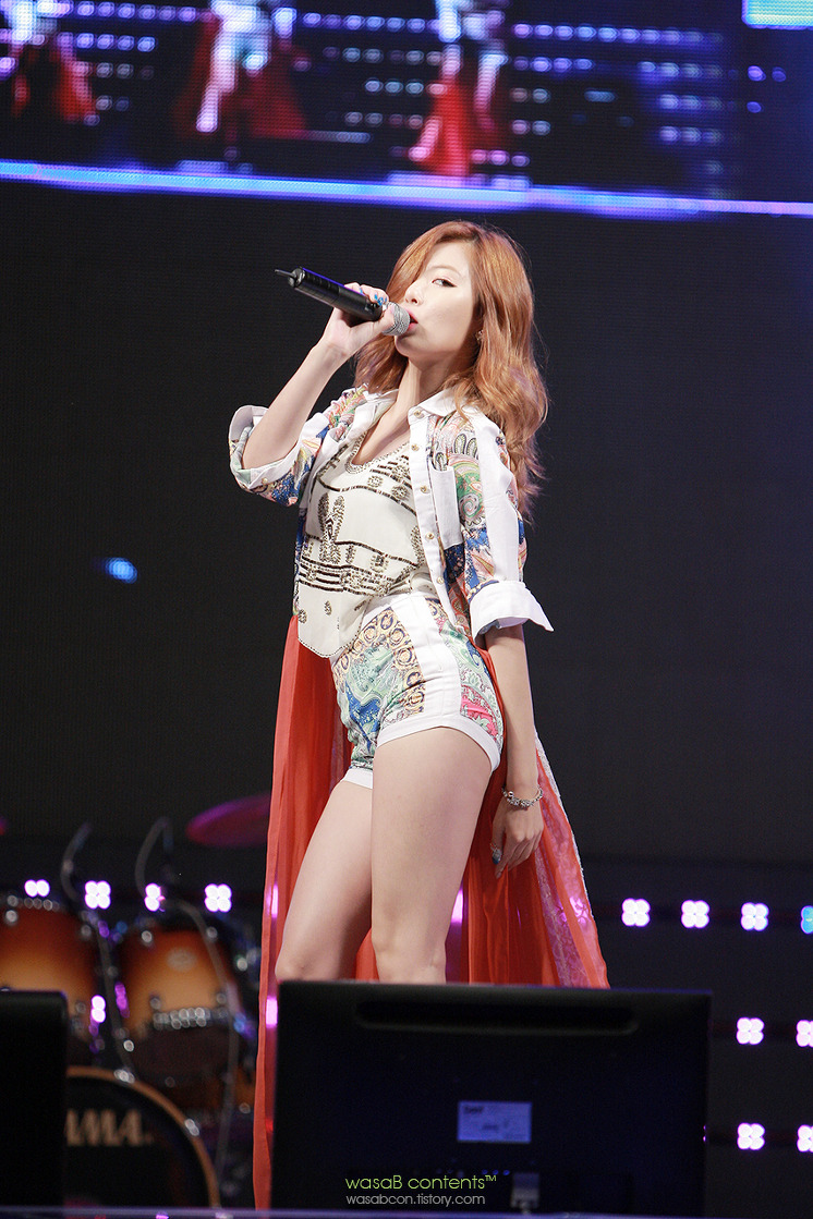 HyunA in September 15, 2012 at the Paju Sound of a Drum Festival.